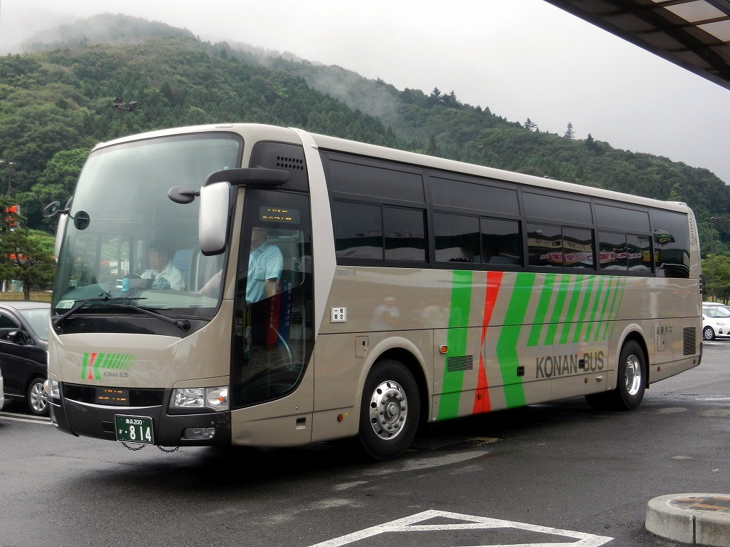 Konan bus Mitsubishi Fuso Aero Ace (QRG-MS96VP)highwaybus "Sky-gou"(Aomori,Hirosaki-Ueno)